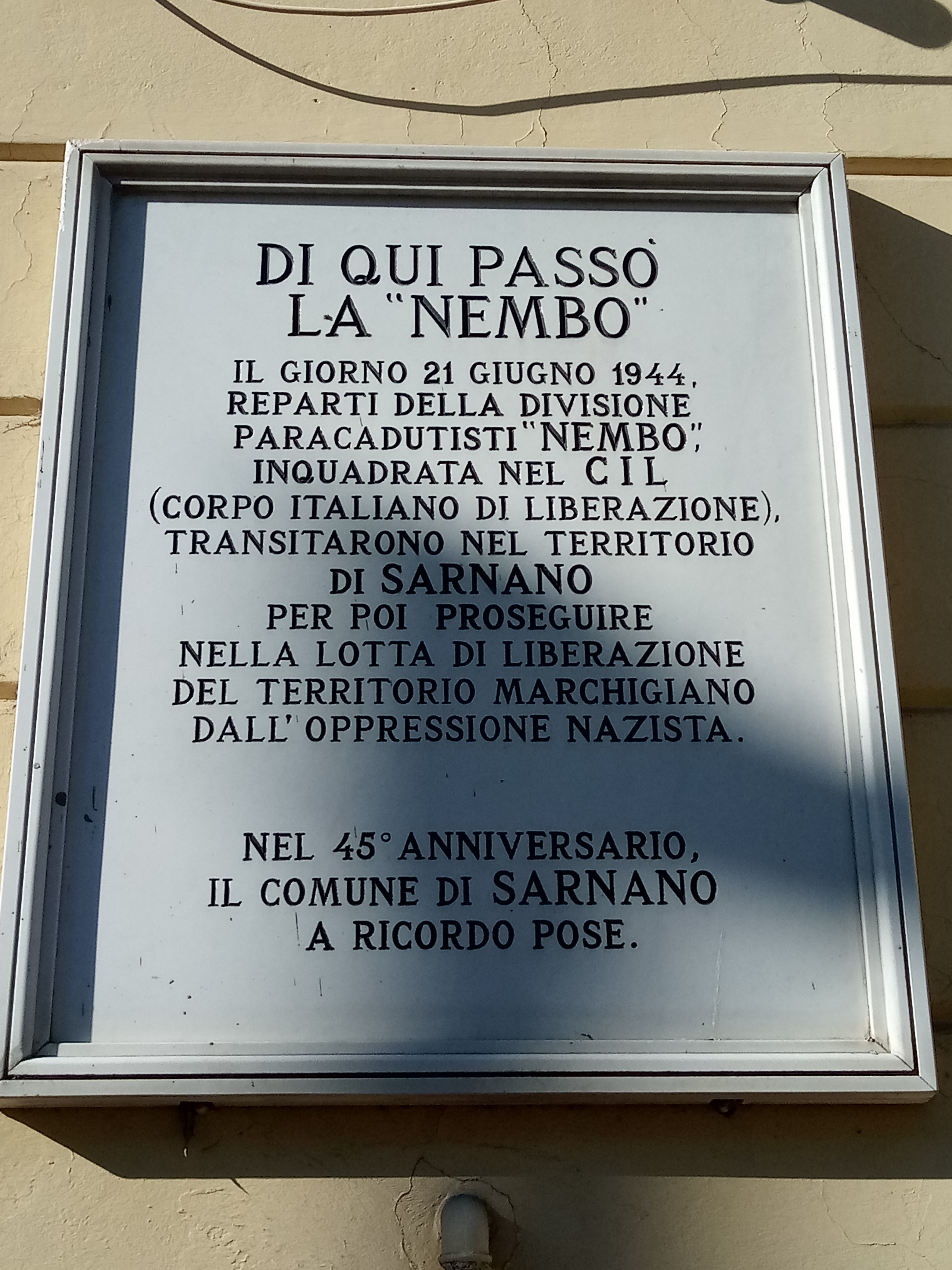 Commemorative plaque for the passage of the parachutists "Nembo" to Sarnano